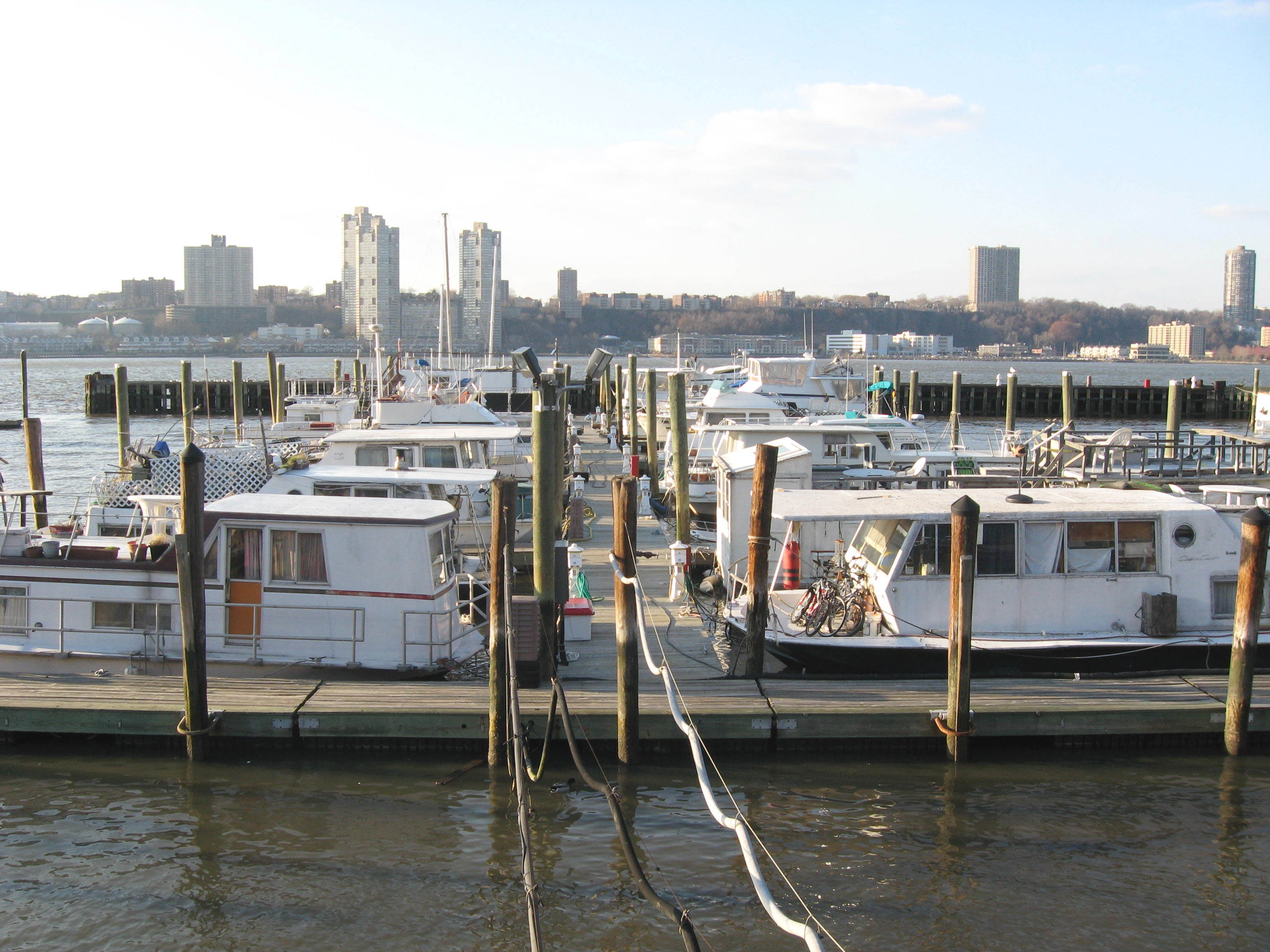 Looking northwest along southern part of en:79th Street Boat Basin on a cloudy afternoon